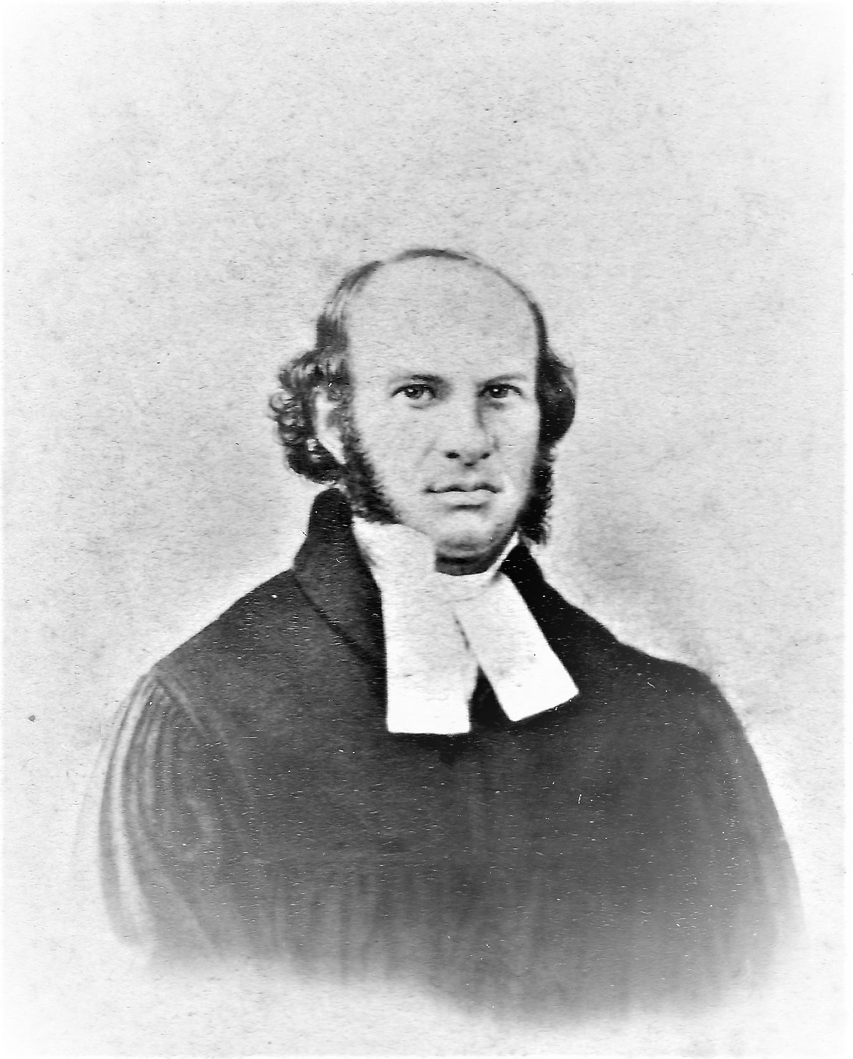 Karl Luppe (1819-1867), german theologian and housemaster of Friedrich I. von Anhalt